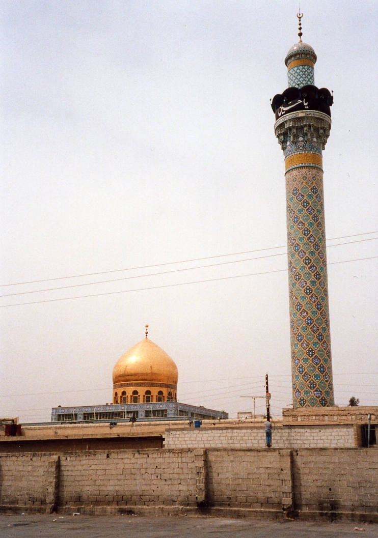 Said Zainab shrine, near Damascus, Syria. Text on minaret reads 'ya Hussein'.